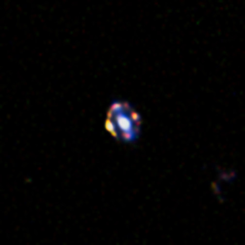 This picture from the NASA/ESA Hubble Space Telescope shows the most distant gravitational lens yet discovered. The glow at the centre of this picture is the central regions of a normal galaxy. By chance it is precisely aligned with a much more remote, young star-forming galaxy. The light from the more distant object is bent around the nearer object by its strong gravitational pull to form a ring of multiple images. The chance of finding such an exact alignment is very small, suggesting that there may be more star-forming galaxies in the early Universe than expected.